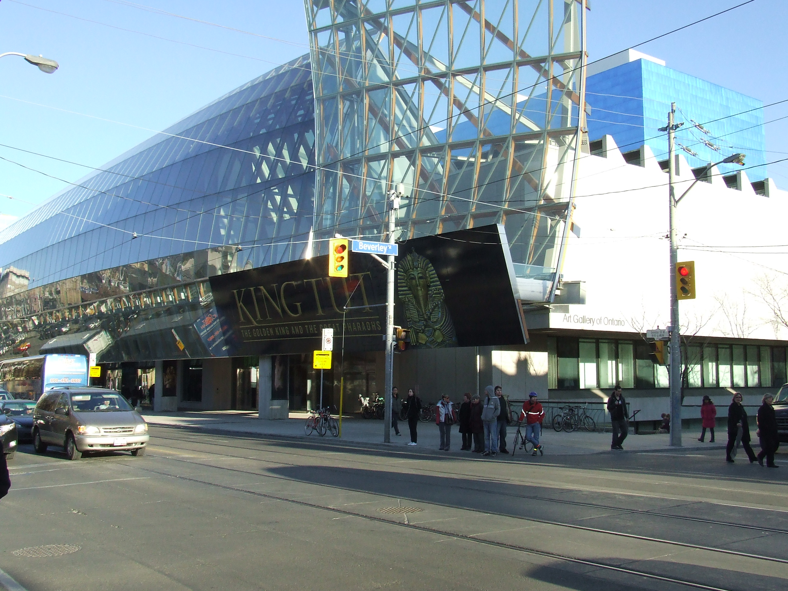 Art Gallery of Ontario, Toronto during King Tut exhibition